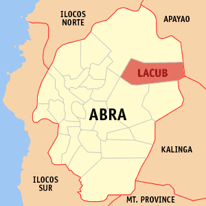 Map of Abra showing the location of Lacub